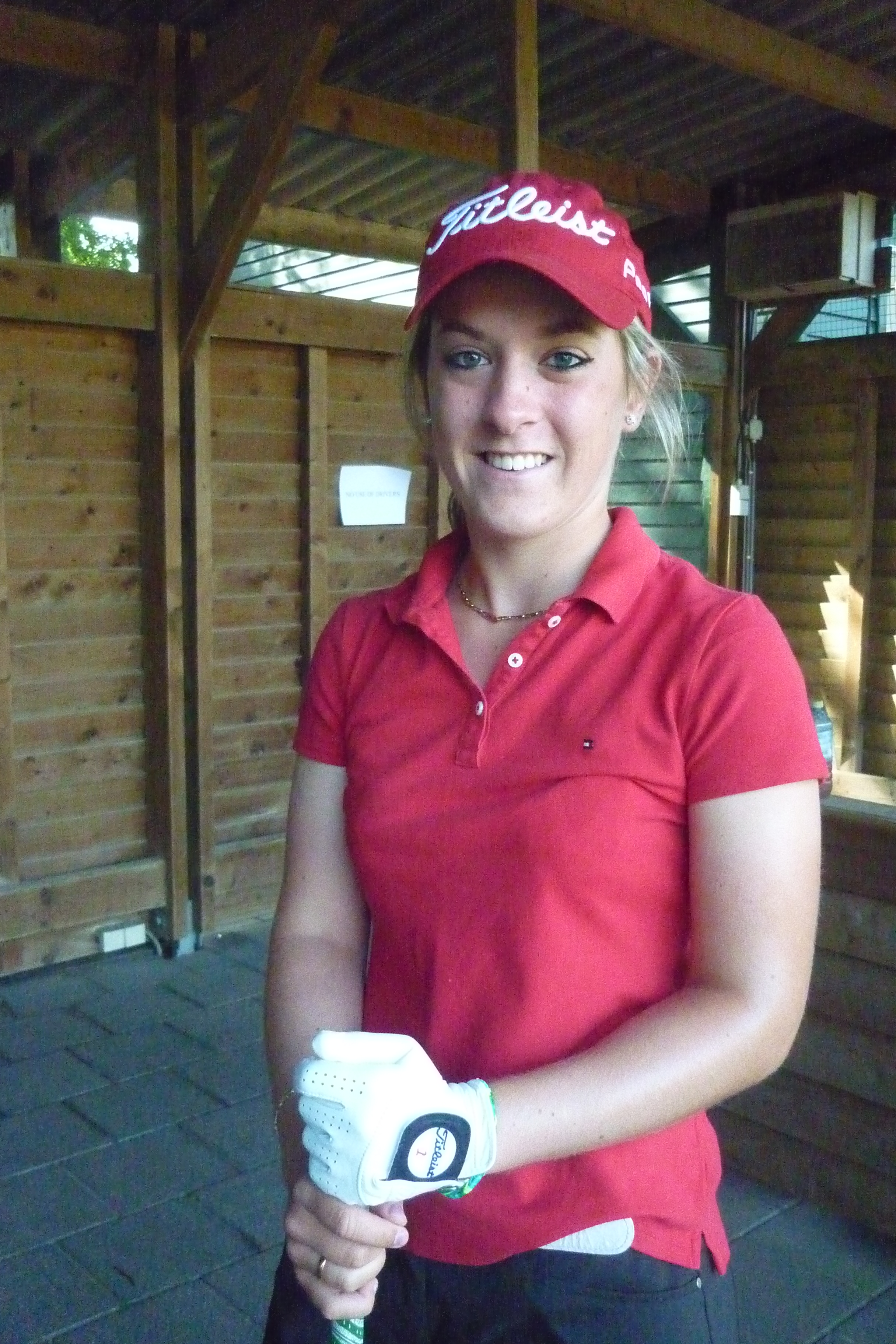 Lauren Taylor op Toxandria